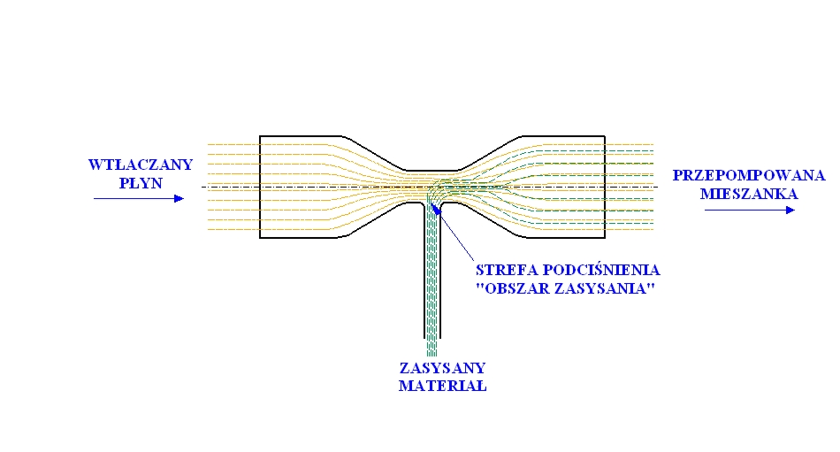 venturi reducer